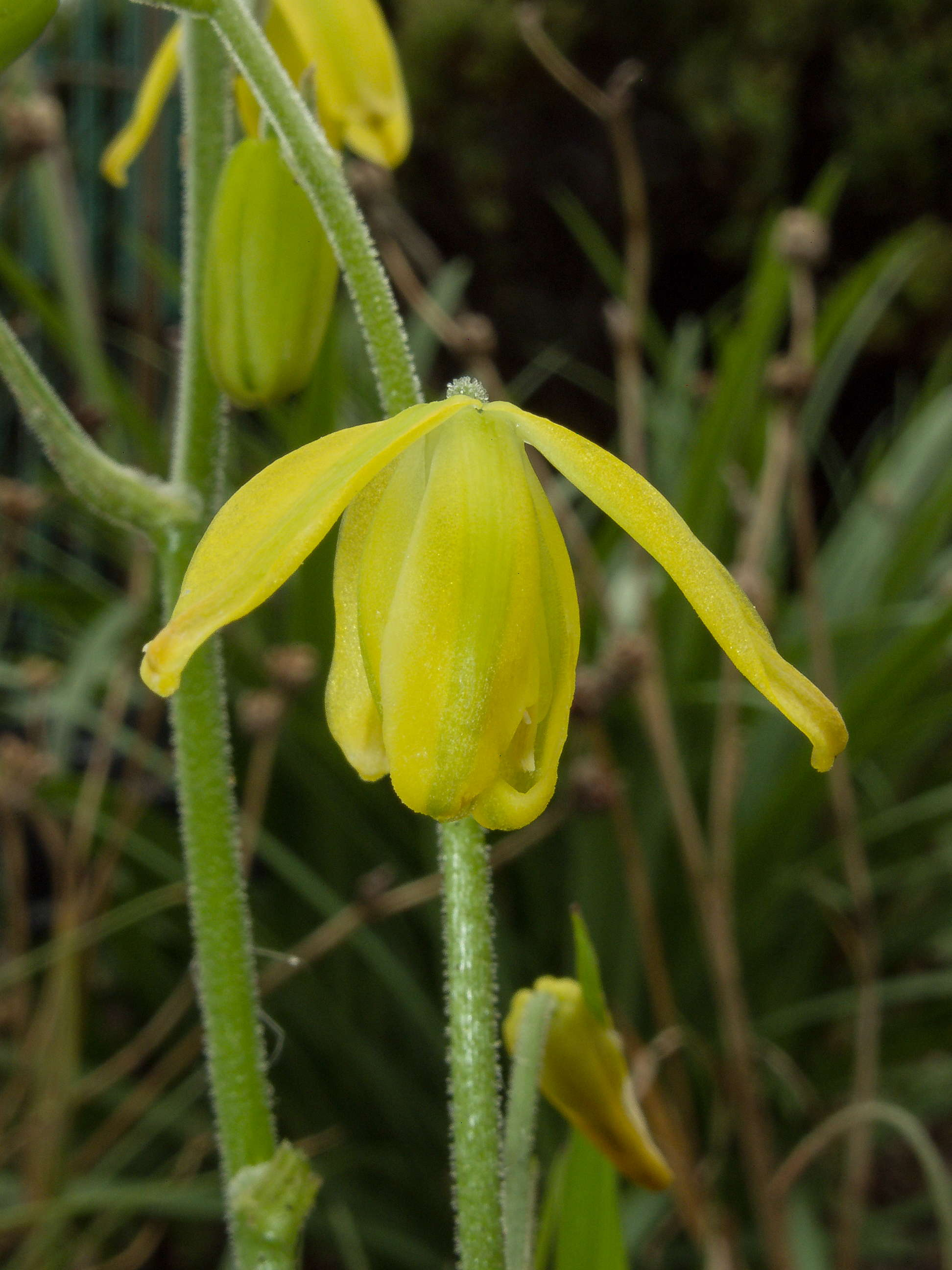 Albuca shawii, photographed in the Birmingham Botanical Gardens, UK, 16 Aug 2015